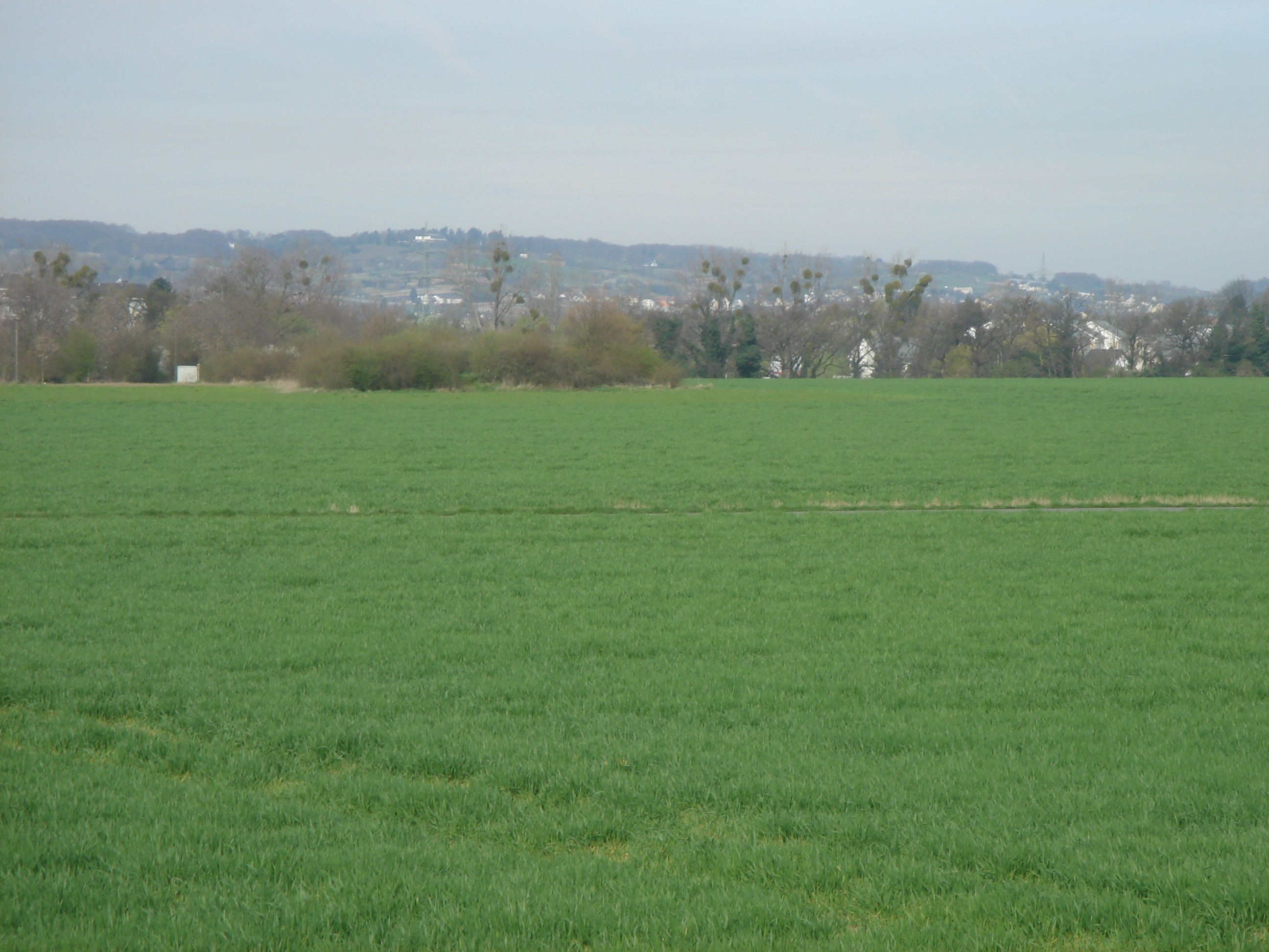 Field Meßdorfer Feld in western Bonn, view towards Lessenich/Meßdorf.